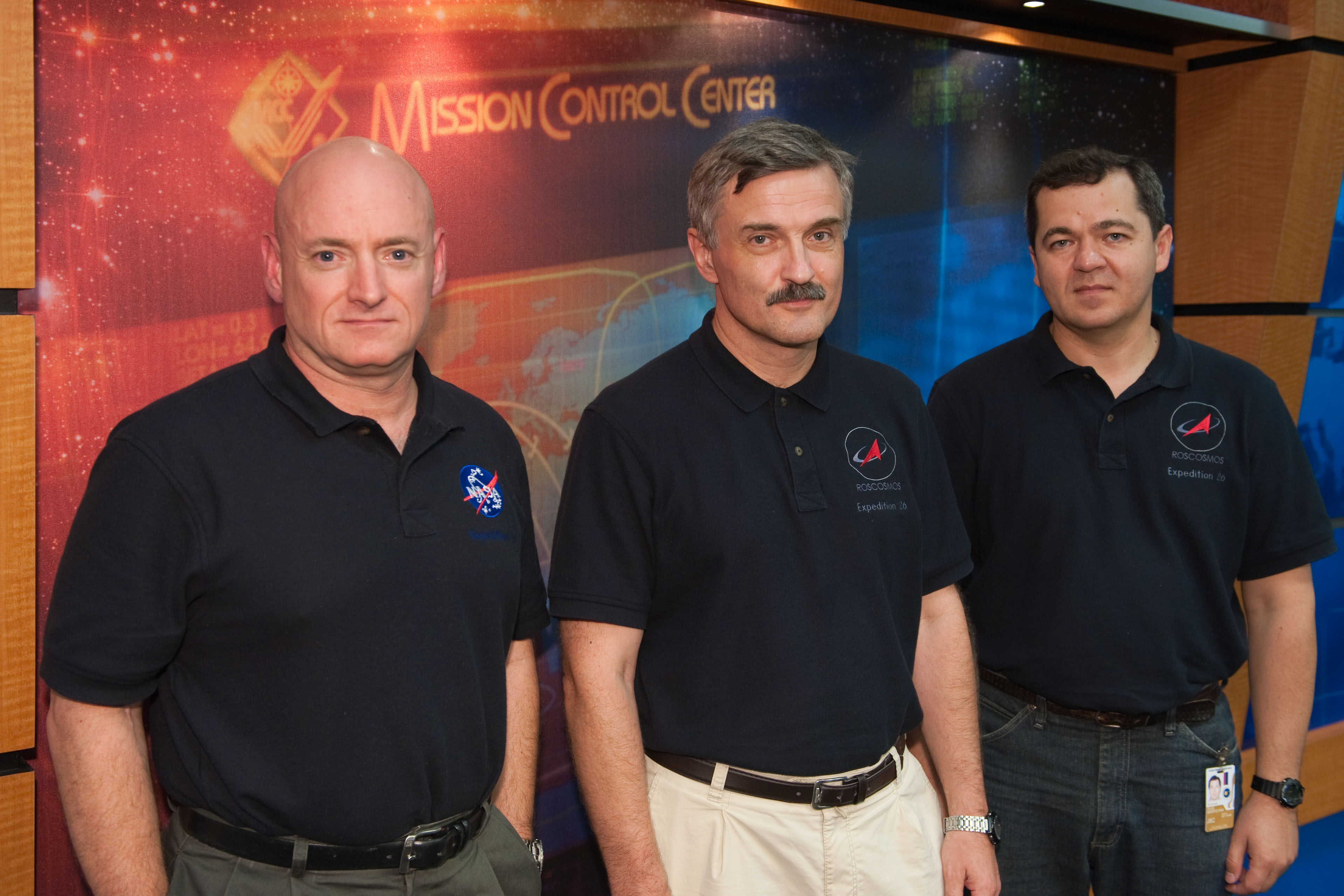 NASA astronaut Scott Kelly (left), Expedition 25 flight engineer and Expedition 26 commander; along with Russian cosmonauts Alexander Kaleri (center), Expedition 25 commander and Expedition 26 flight engineer and Oleg Skripochka, Expedition 25/26 flight engineer, pose for a portrait following an Expedition 25/26 preflight press conference at NASA's Johnson Space Center. Kelly, Kaleri and Skripochka are scheduled to launch to the International Space Station aboard a Russian Soyuz spacecraft in September 2010.